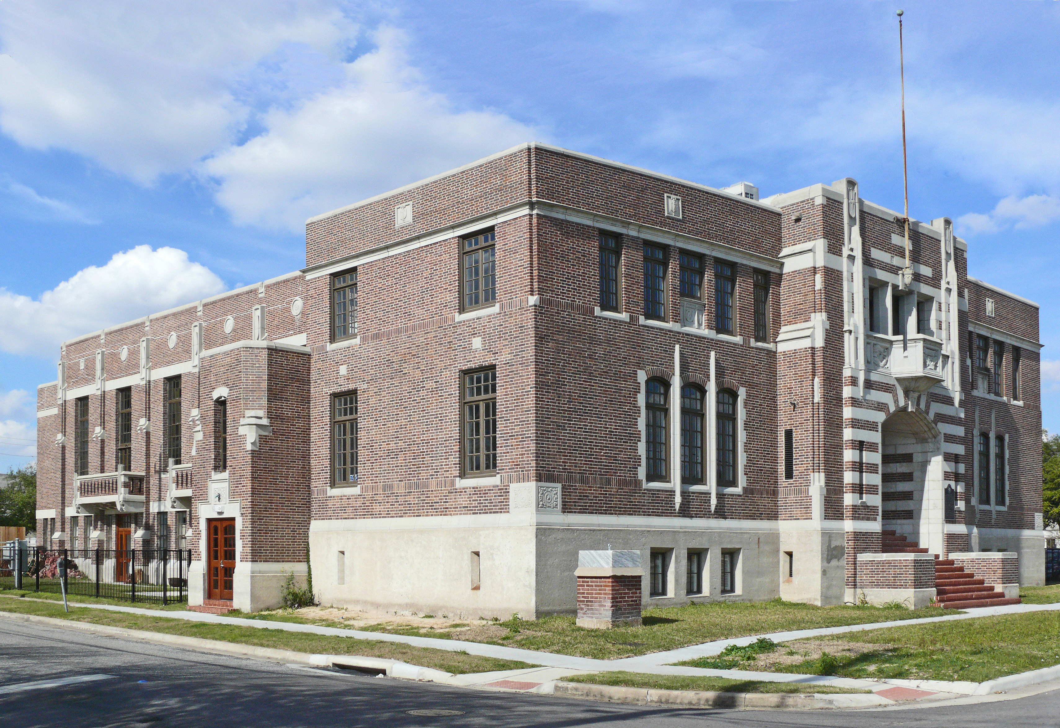 Organized as a Texas Militia unit on April 21, 1873, the Houston Light Guard originally participated in parades, ceremonies, and competitive drills, and served as guard of honor for visiting dignitaries. The first commander was Capt. Edwin Fairfax Gray (1829-1884), then the city engineer of Houston. During the 1880s The Guard, dressed in uniforms of red coats and red-plumed helmets, became known as a leader in drill competitions throughout the United States. Prize money funded their first armory in 1891. In 1898 The Guard was activated for service with United States troops in the Spanish-American War. After participating in the punitive expedition against Mexico, 1916-1917, the unit joined U. S. forces fighting in Europe during World War I. The Guard built a new armory at this site in 1925 and deeded it to the State of Texas in 1939. The next year the unit was again activated and during World War II saw action in seven campaigns in Africa and Europe. As part of the 36th Infantry Division, Guard members were among the first American troops in Europe during the war. Now part of the National Guard, the Houston Light Guard represents a proud heritage of distinguished military service. Today the building serves as the headquarters of the Buffalo Soldiers National Museum